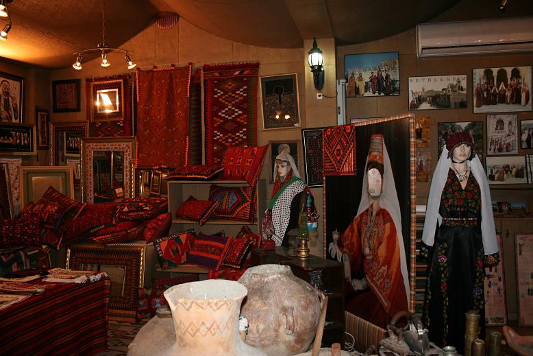 Part of the interior of the Palestinian Heritage Centre in Bethlehem